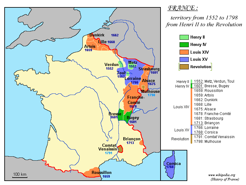 French conquests 1552–1791 - see details below